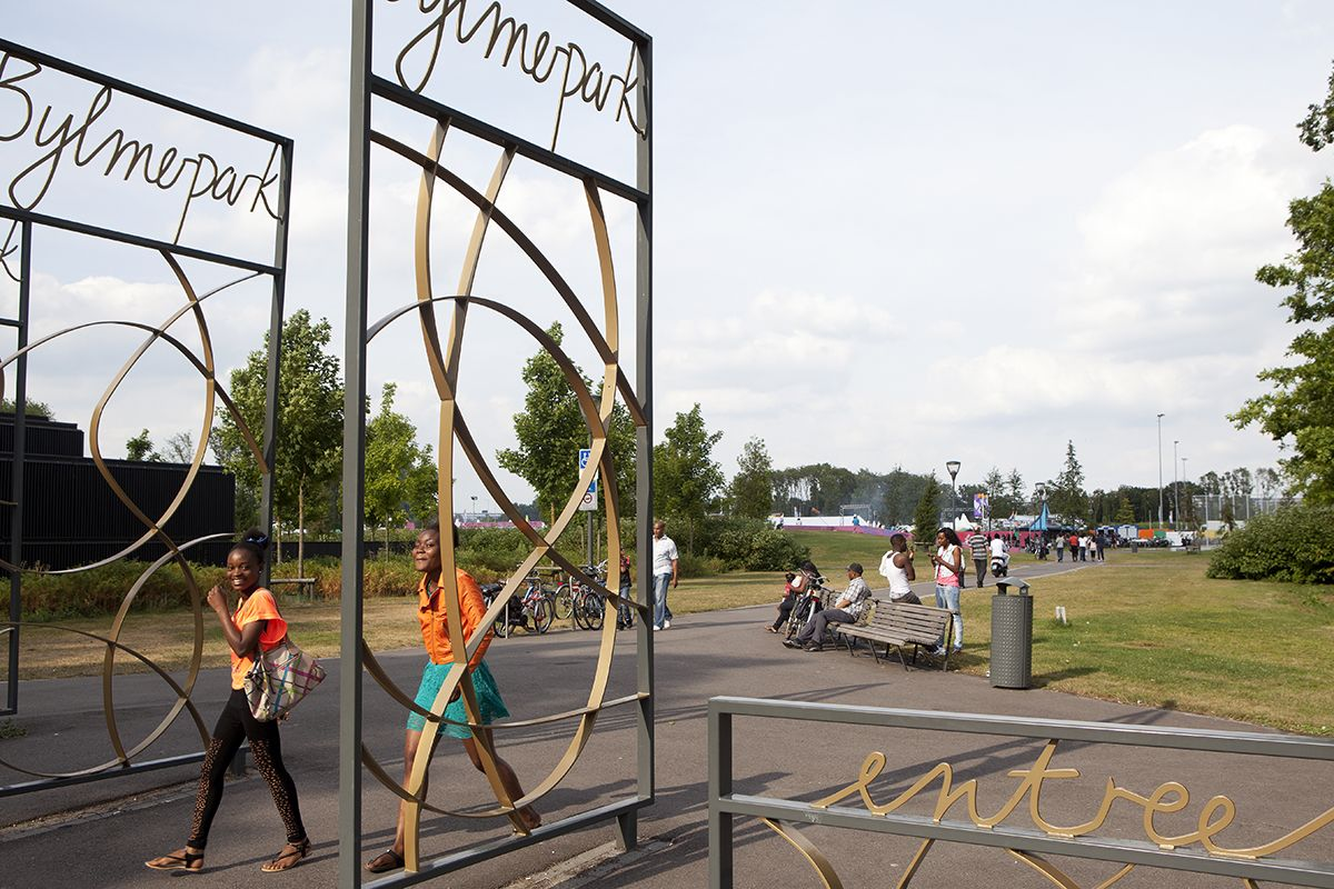 Fences